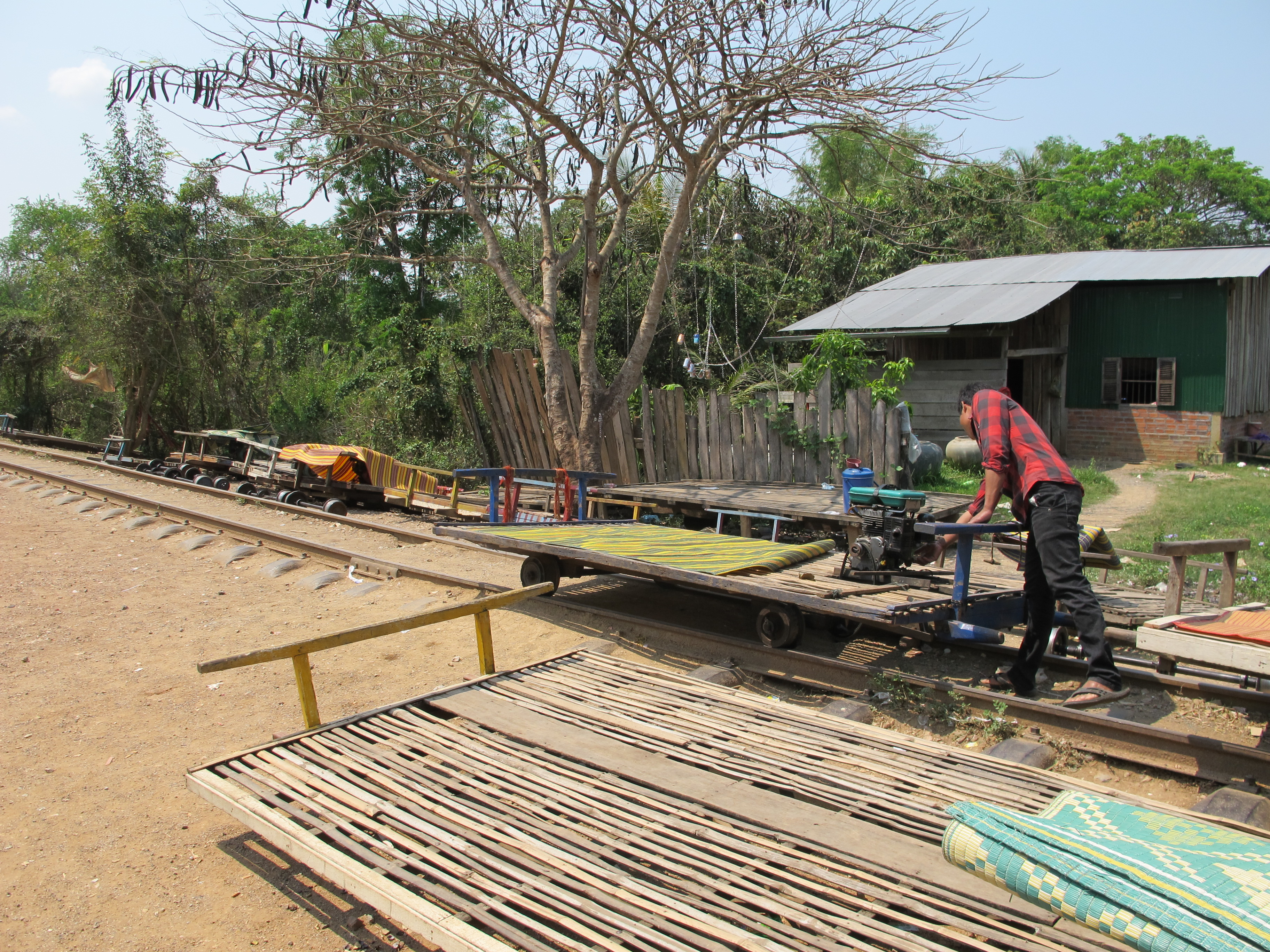 Bamboo train near Battambang, Cambodia